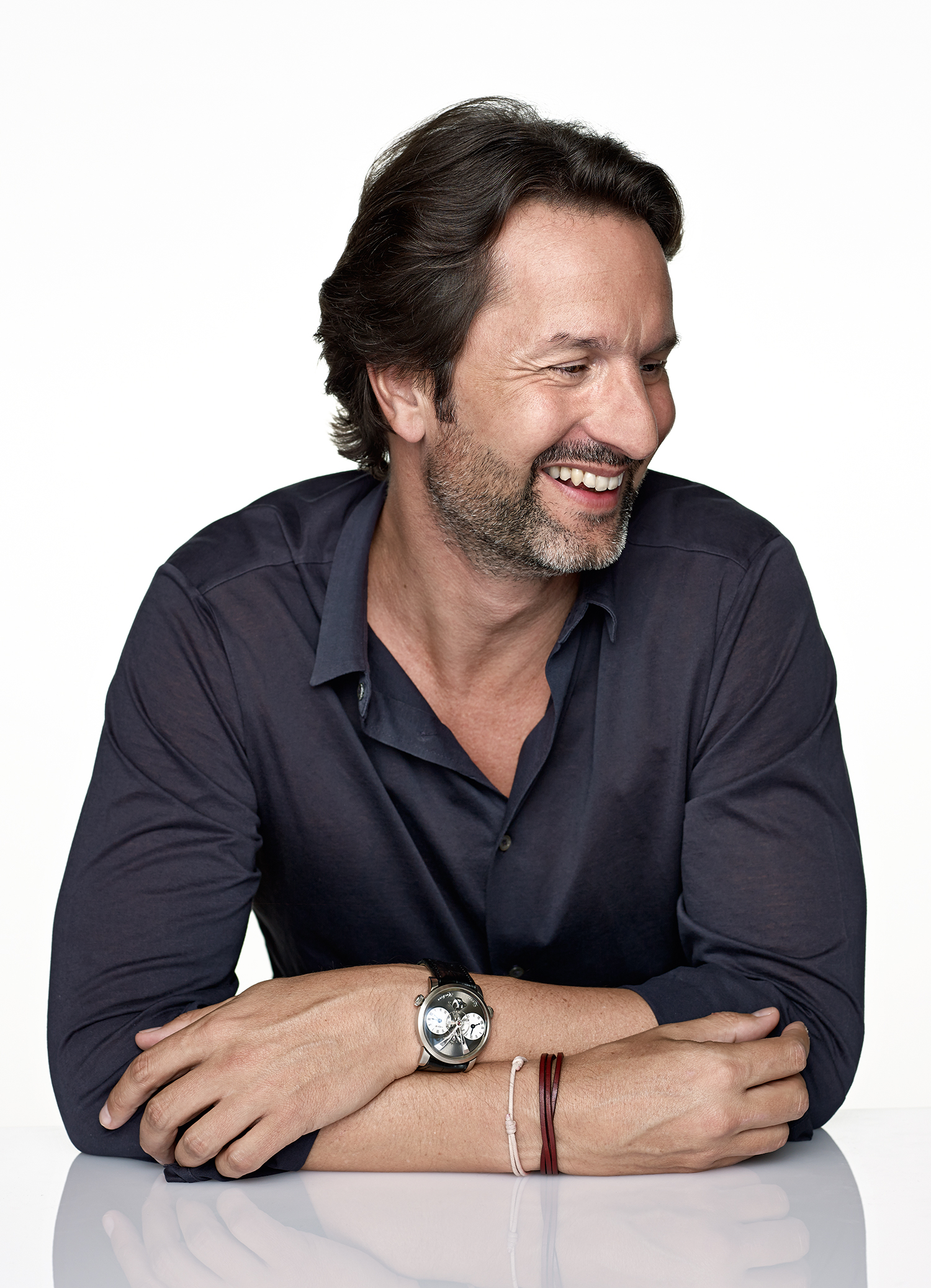 portrait of Maximilian Büsser